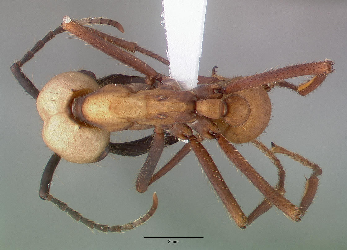 Dorsal view of ant Eciton burchellii specimen casent0009221.